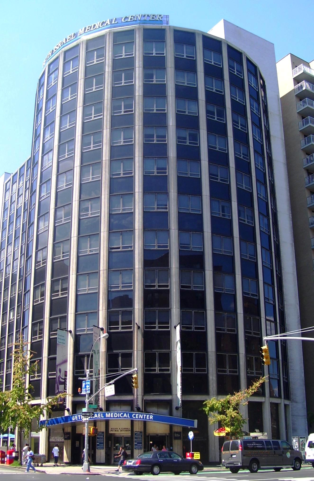 Beth Israel Medical Center Linsky Pavillion on First Avenue and 16th Street in Manhattan, New York City